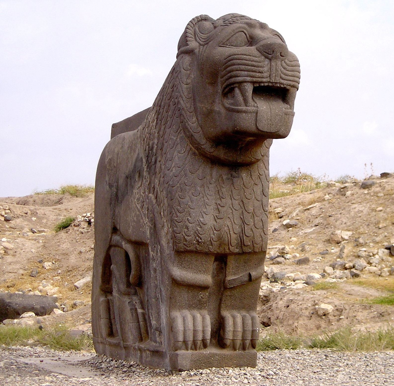 Ancient statue of a lion — Ain Dara, Syria.